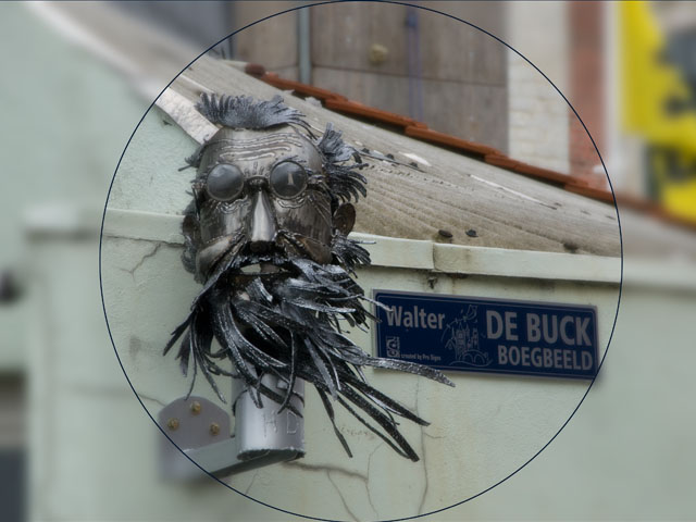 art "walter de buck boegbeeld"